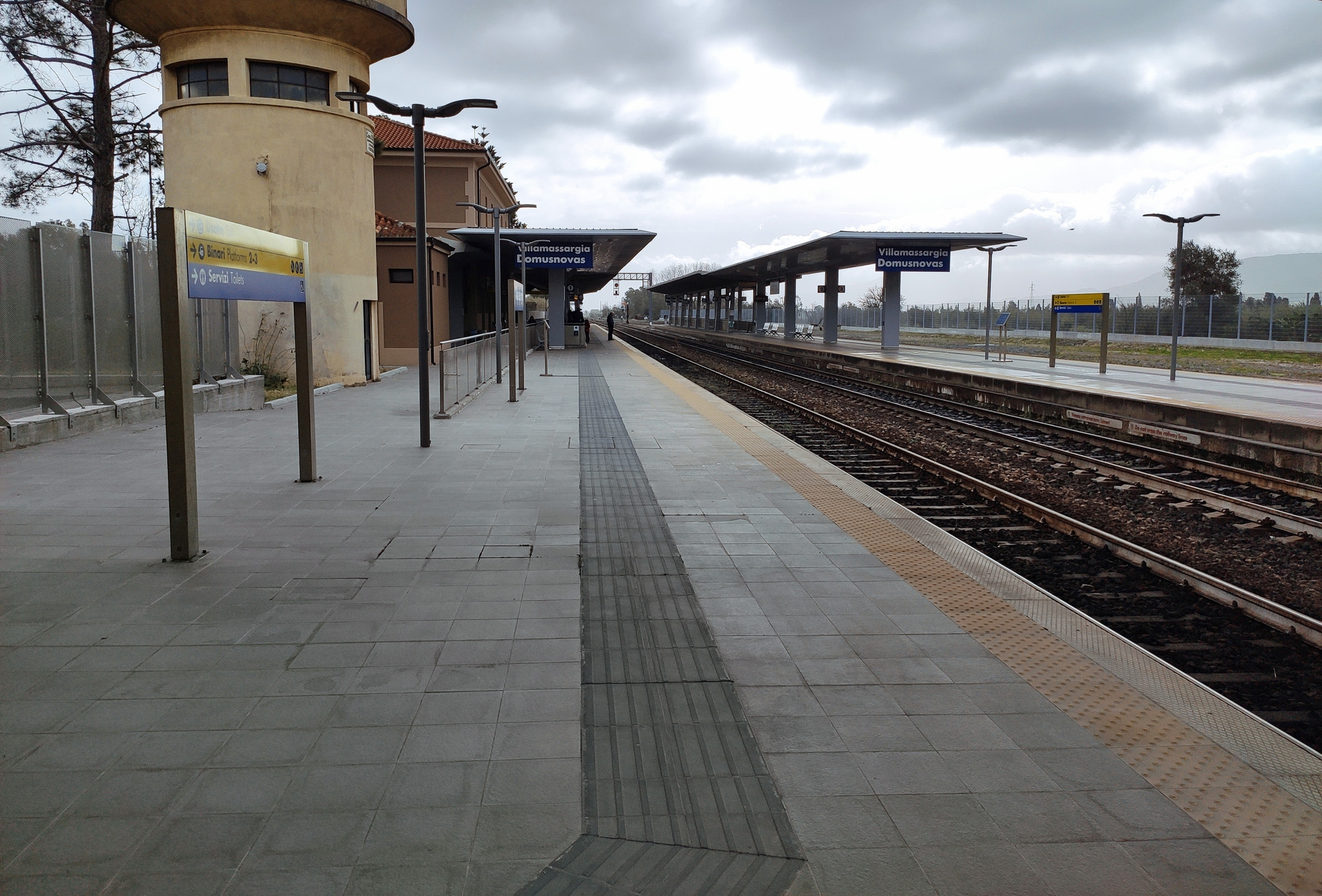 The Villamassargia-Domusnovas train station in Villamassargia, Sardinia, Italy